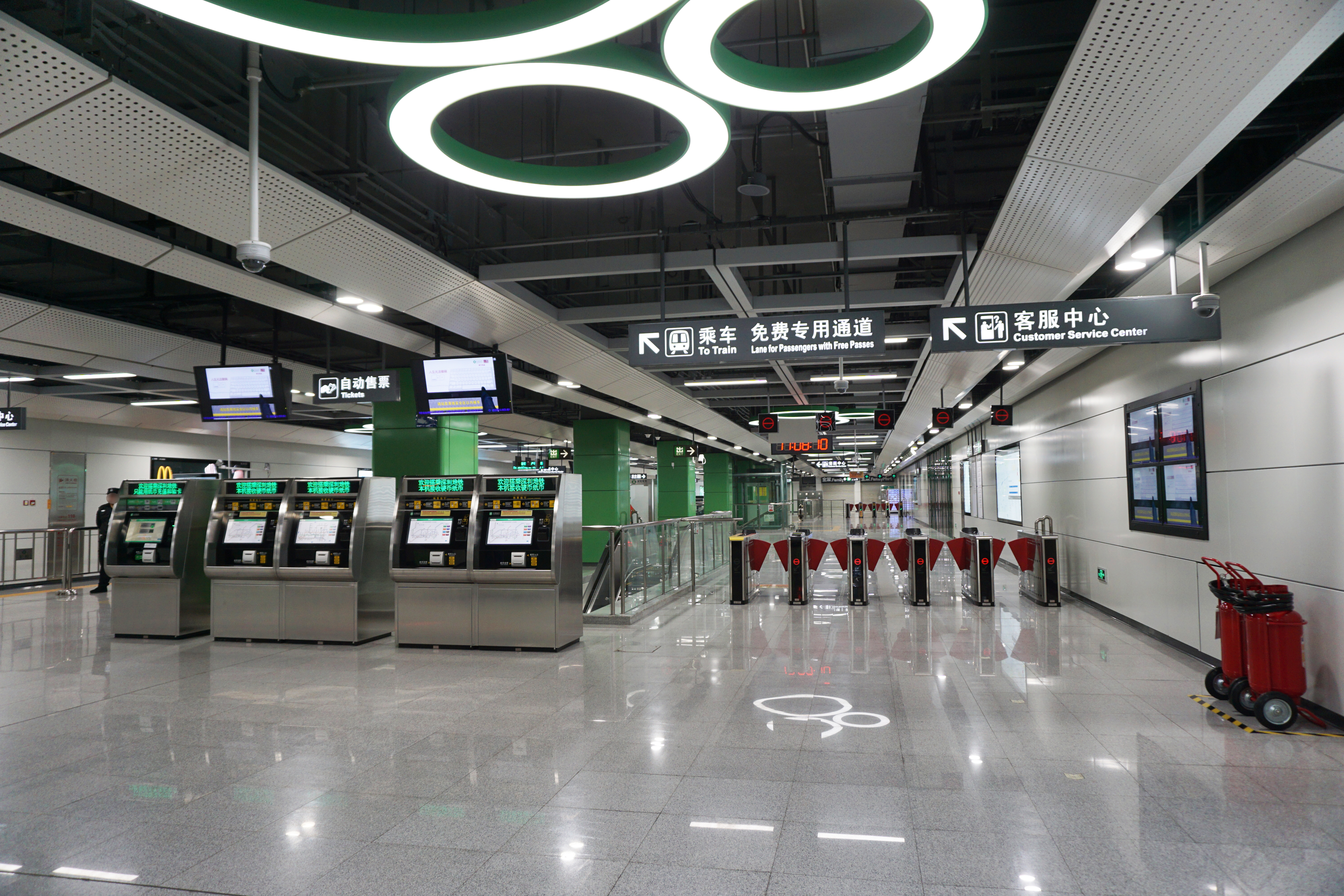 Nonglin Station in Futian District, Shenzhen.